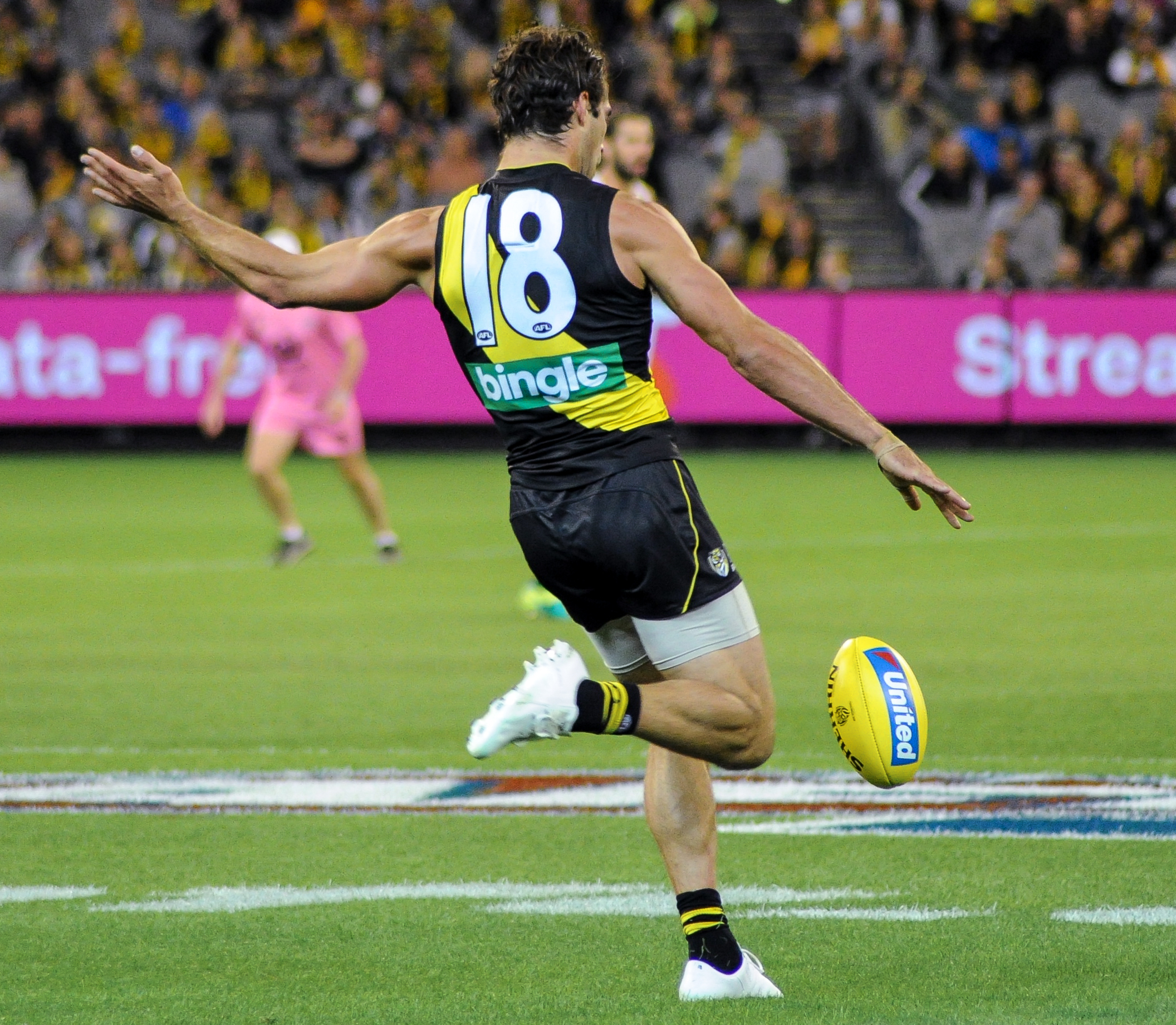 Alex Rance kicking during the AFL round two match between Richmond and Collingwood on 30 March 2017 at the Melbourne Cricket Ground in Melbourne, Victoria.